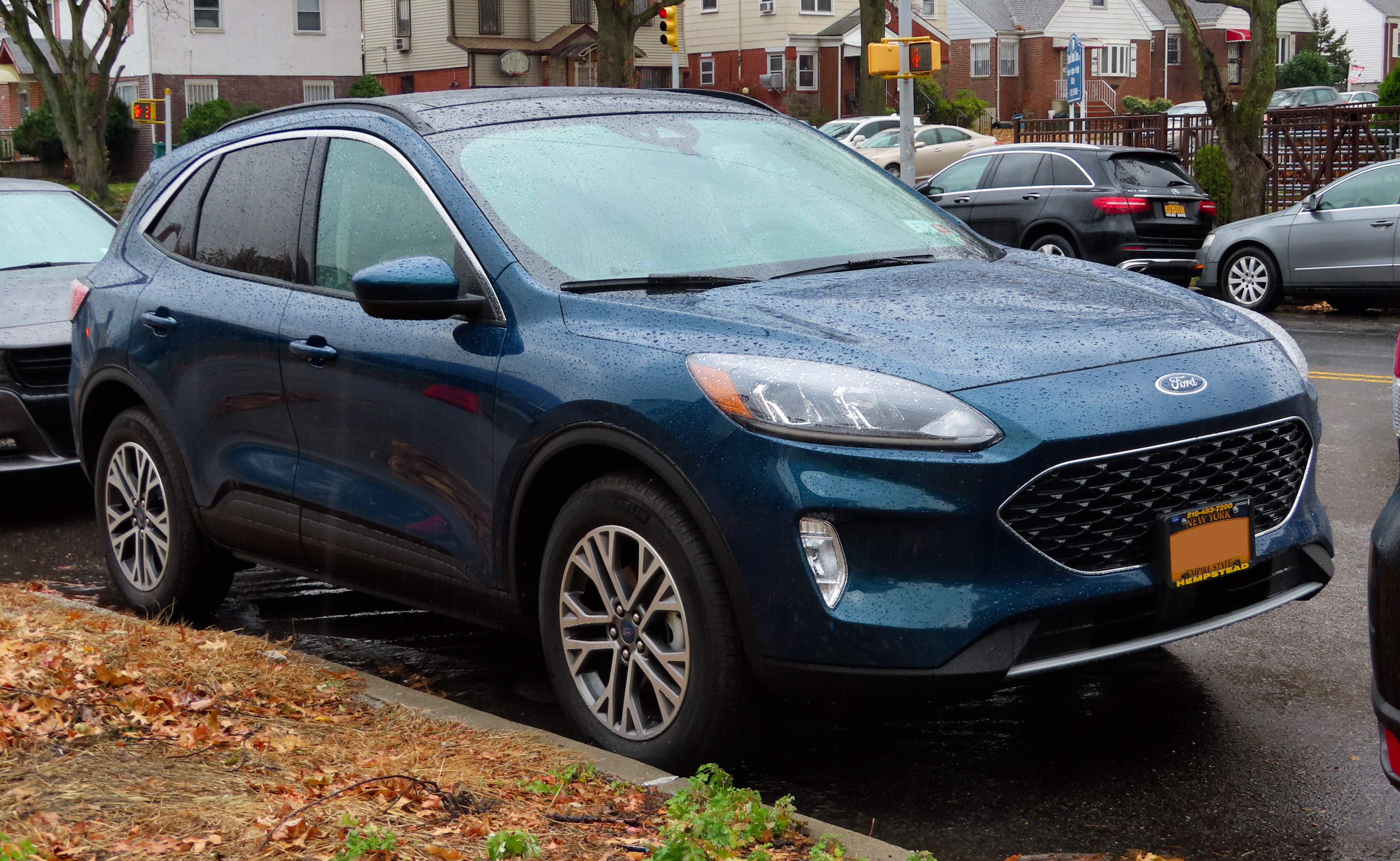 A 2020 Ford Escape SEL EcoBoost photographed in Fresh Meadows, Queens, New York, USA